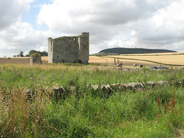 Lordscairnie Castle 15th century tower house. The building had become a source of building stone, note the undercut corners. Mount Hill in the background.